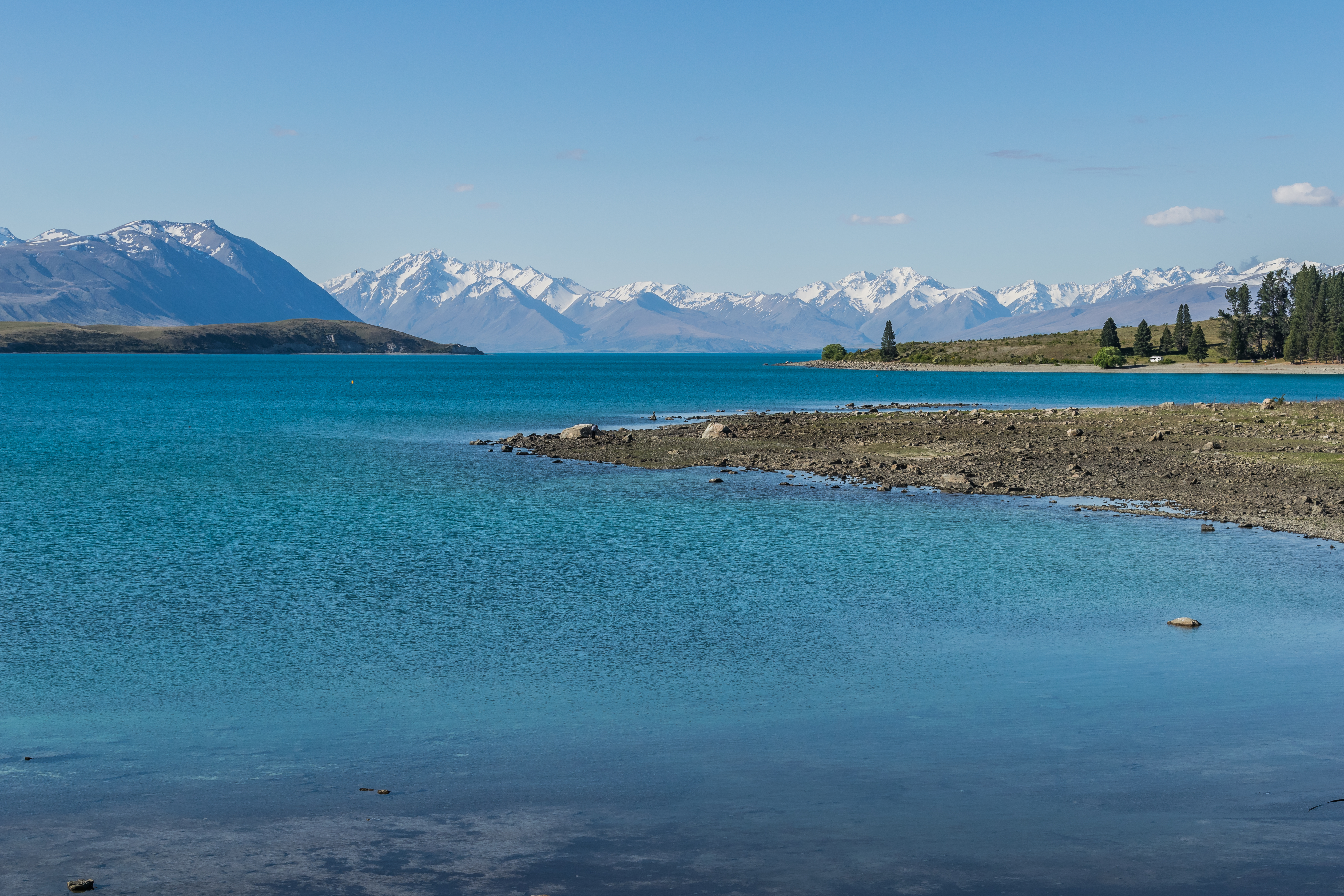 Lake Tekapo in Canterbury Region, South Island of New Zealand